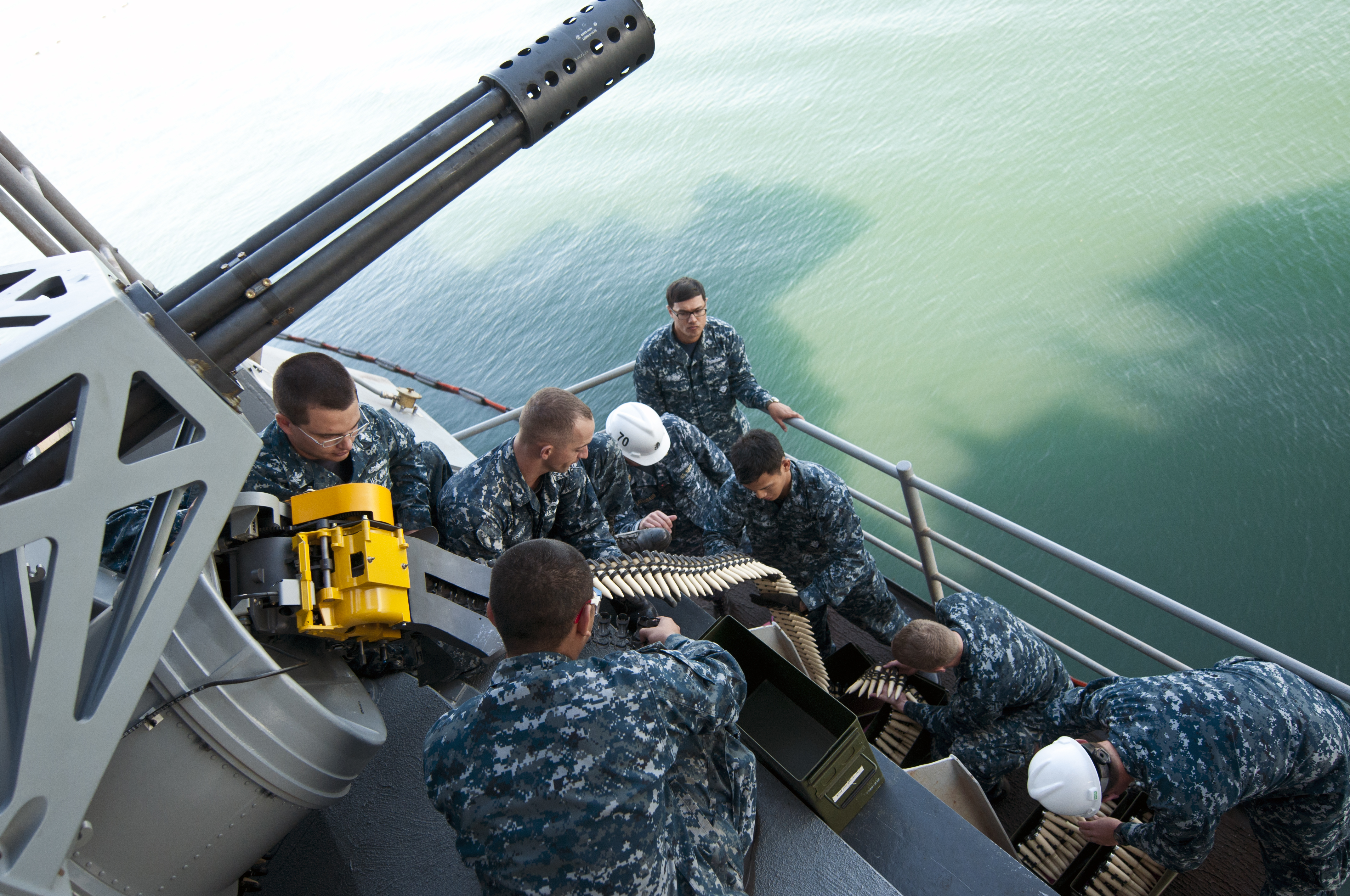 CORONADO, Calif. (Oct. 30, 2012) Fire Controlmen conduct a mock reload of a MK 15 Phalanx Close-In Weapons System (CIWS) aboard the Nimitz-class aircraft carrier USS Carl Vinson (CVN 70). Carl Vinson is currently pierside at Naval Air Station North Island undergoing planned incremental availability. The U.S. Navy is reliable, flexible, and ready to respond worldwide on, above, and below the sea. Join the conversation on social media using #warfighting. (U.S. Navy photo by Mass Communication Specialist 3rd Class Kevin Harbach/Released) 121030-N-DD691-207 Join the conversation navylive.dodlive.mil